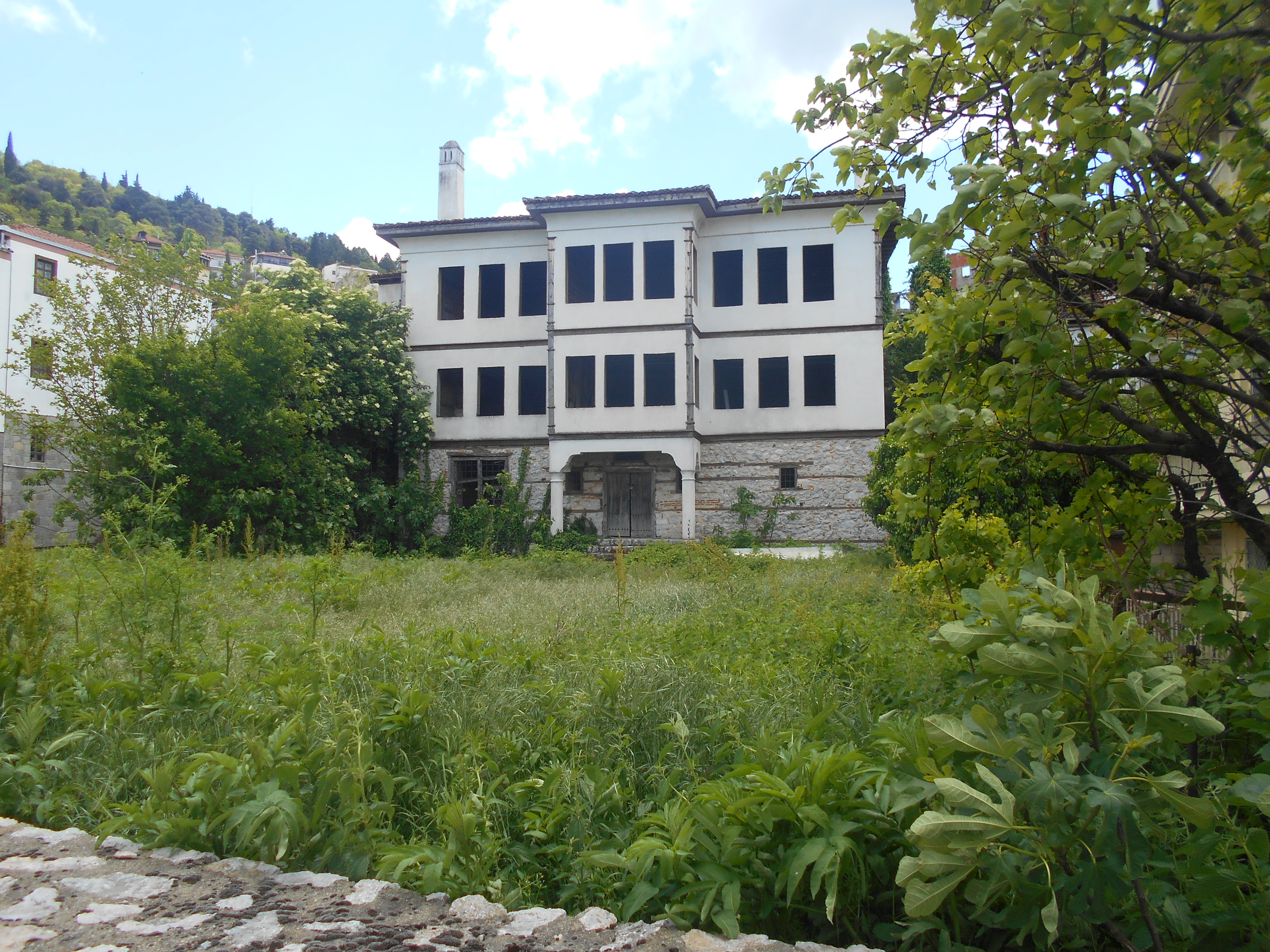 This is a photography of Natura 2000 protected area with ID Kastoria